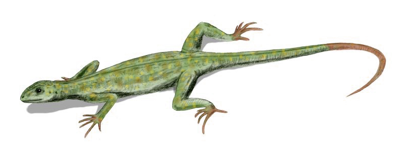 Petrolacosaurus kansensis, a primitive diapsid from the Late Carboniferous of Kansas, pencil drawing